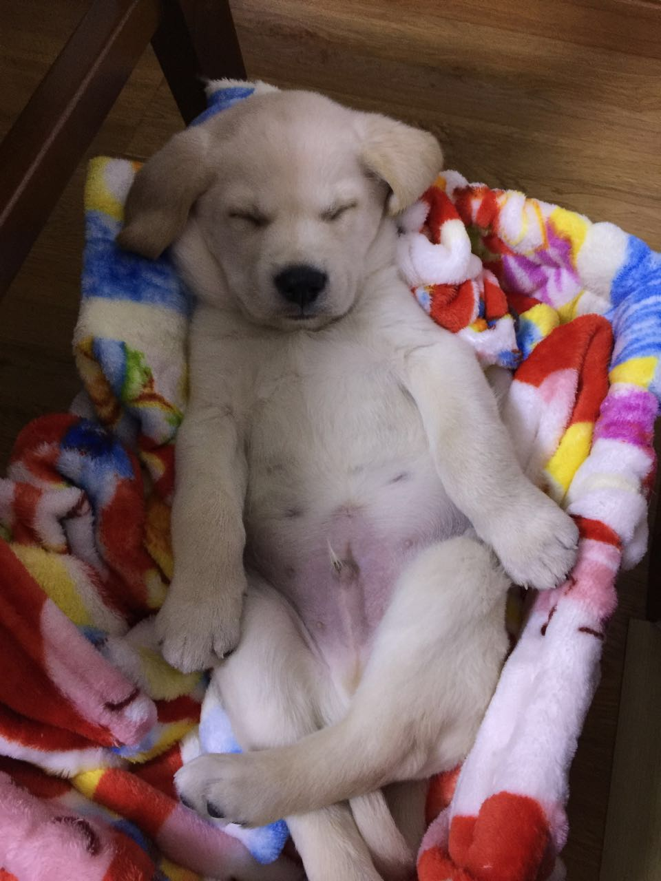 One deep sleeping young labrador retriever